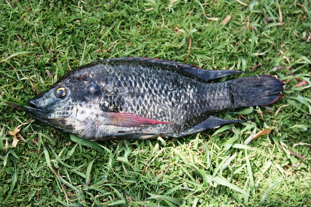 Introduced cichlid fish from a lake in Pune, India. Identified as Oreochromis mossambicus.